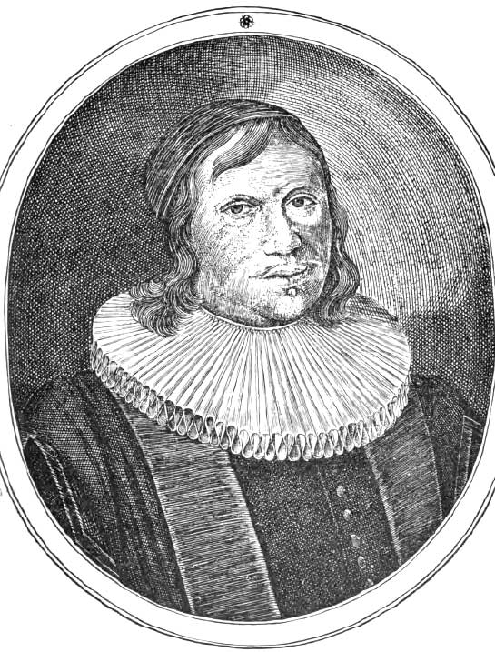 Georg Haccius (1626-1684)Protestant theologians from Germany